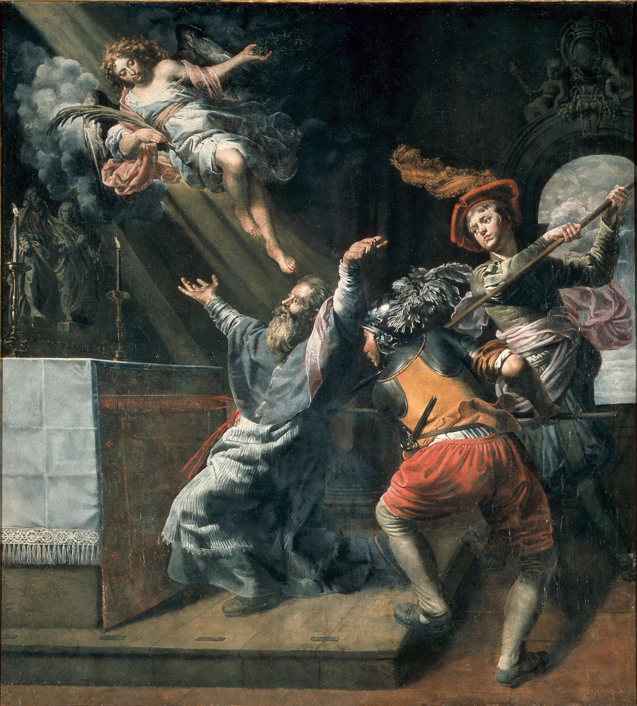 The Martyrdom of Saint Lambert by Theodoor van Loon, ca. 1616-1617, Royal Institute for Cultural Heritage of Belgium